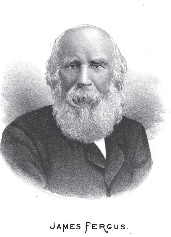 James Fergus, Montana pioneer ca 1885